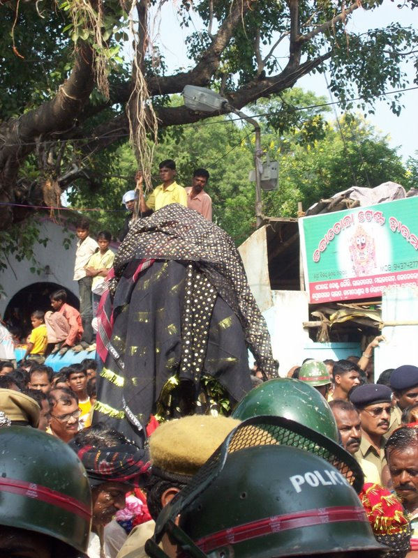 Chattar Jatra Of Maa Manikeswari